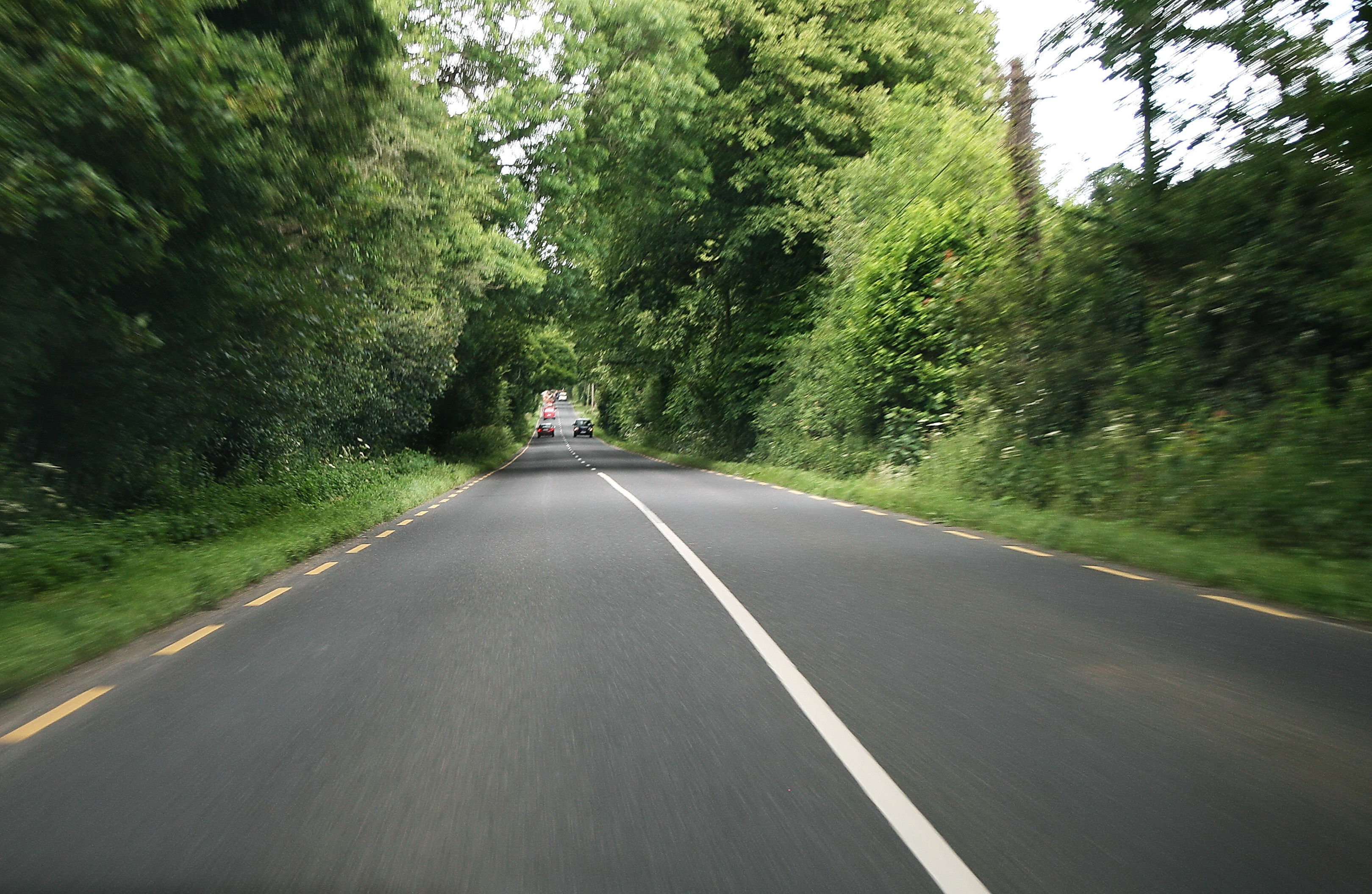 Zooming along the R741 in County Wexford, Ireland